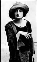 Yiddish theater actress Celia Adler